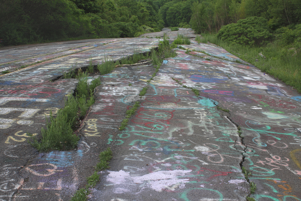 Centralia, Pennsylvania, United States, abandoned section of Pennsylvania Route 61 above a coal seam fire. The abandoned section has been nicknamed the Graffiti Highway since its surface was almost completely covered by graffiti during the 2010s.The same road section eight years earlier in 2008 with significantly less graffiti: File:A264, Centralia, Pennsylvania, USA, damaged highway above coal mine fire, 2008.JPG